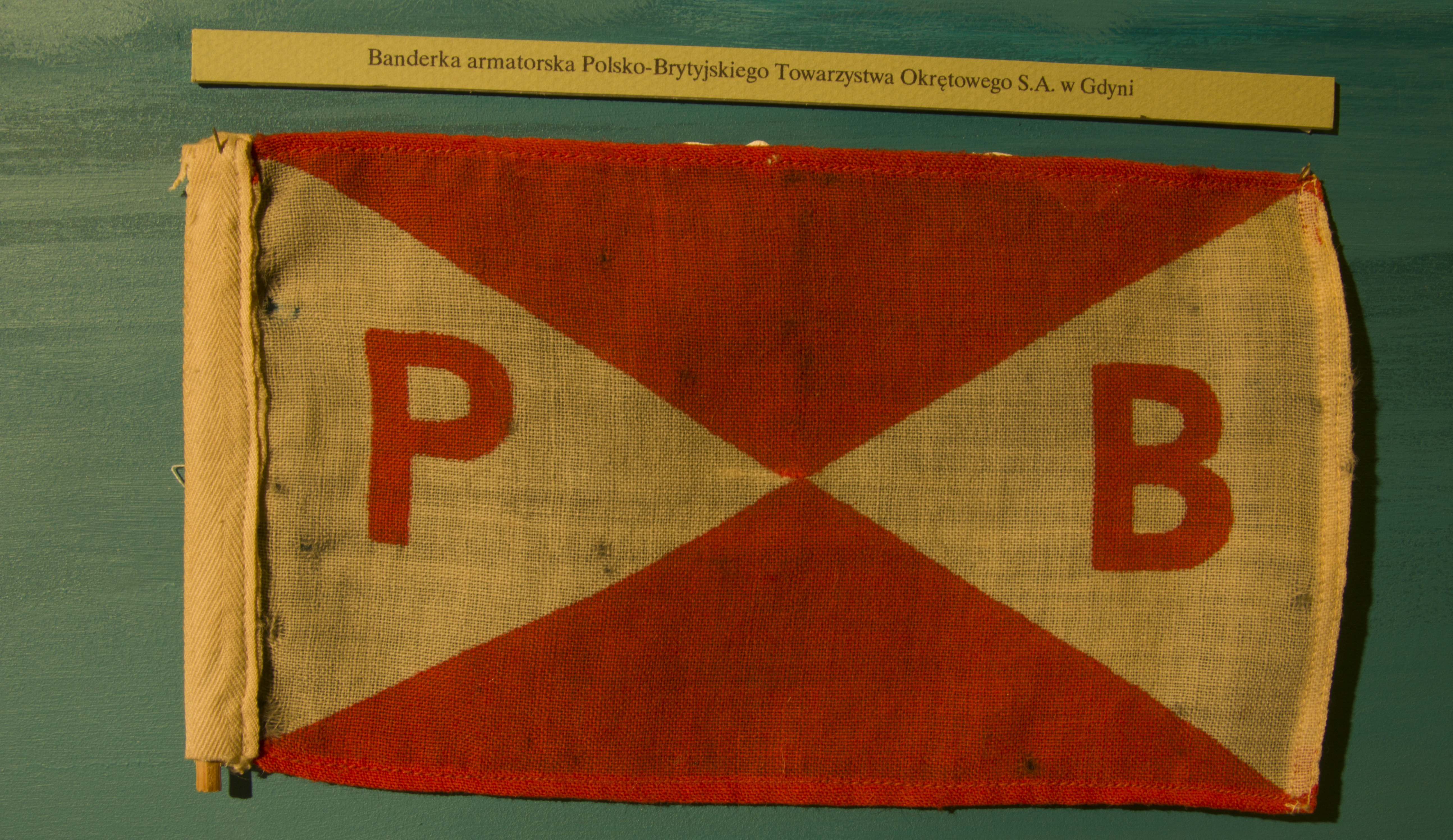 Flag of Polish+British Shipping Comapnz Polbrzt. Exhibit in NAtional Maritime Museum in Gda}sk, Poland